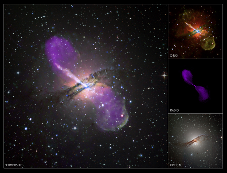 Composite image of active galaxy Centaurus A.